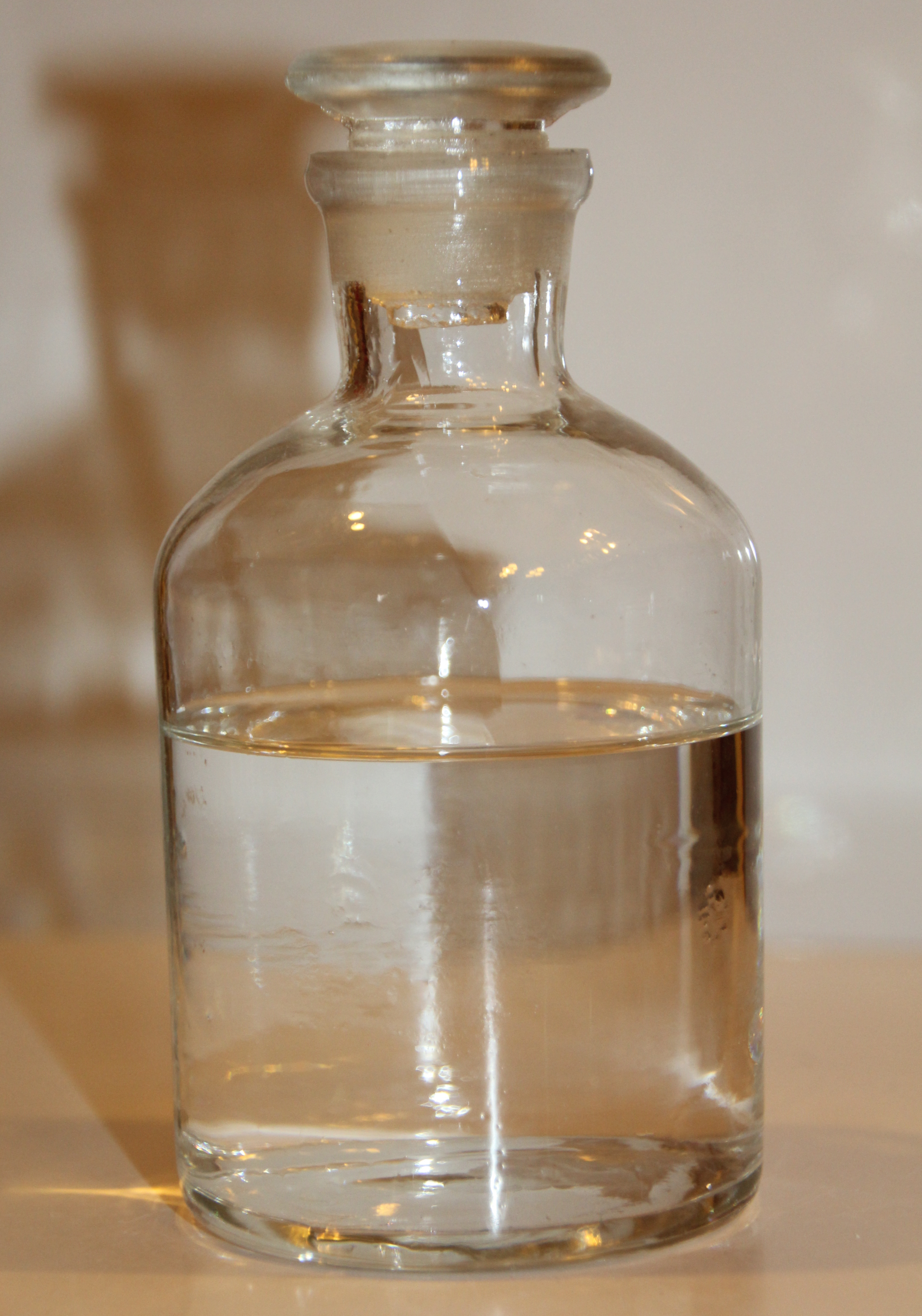 Sample of Acetone